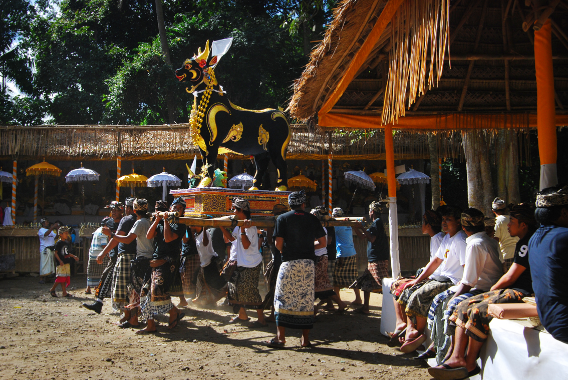 Balinese Cremation Ceremony performs to return the body's five elements of air, earth, fire, water and space to the cosmos. The soul can then depart and find its new life through incarnation. To experience this ceremony is a rae opportunity. In respect of the ceremony, we need to put on a sarong to join in. Location: Monkey Forest, Ubud